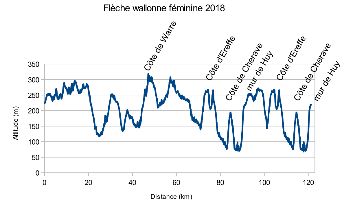 Profile of the Flèche wallonne féminine 2018.